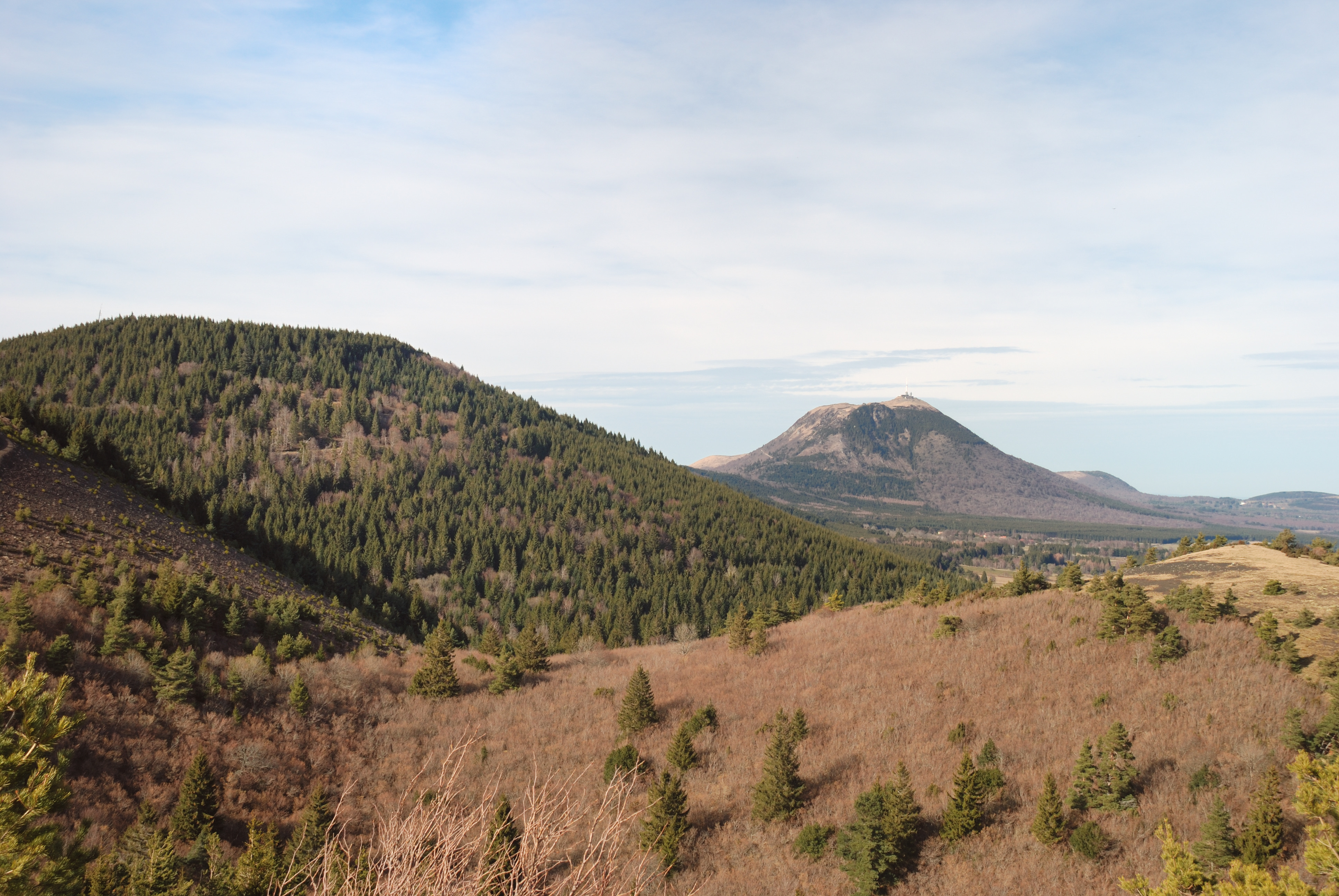 Chaîne des Puys : Puy Mercœur (on the left, 1249 m) avec le Puy-de-Dôme in the background (Puy-de-Dôme, France).